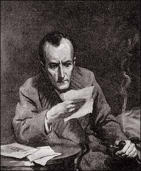 Arthur Conan Doyle, The Adventure of the Red Circle (1911), Illustration by H. M. Brock, in The Strand Magazine